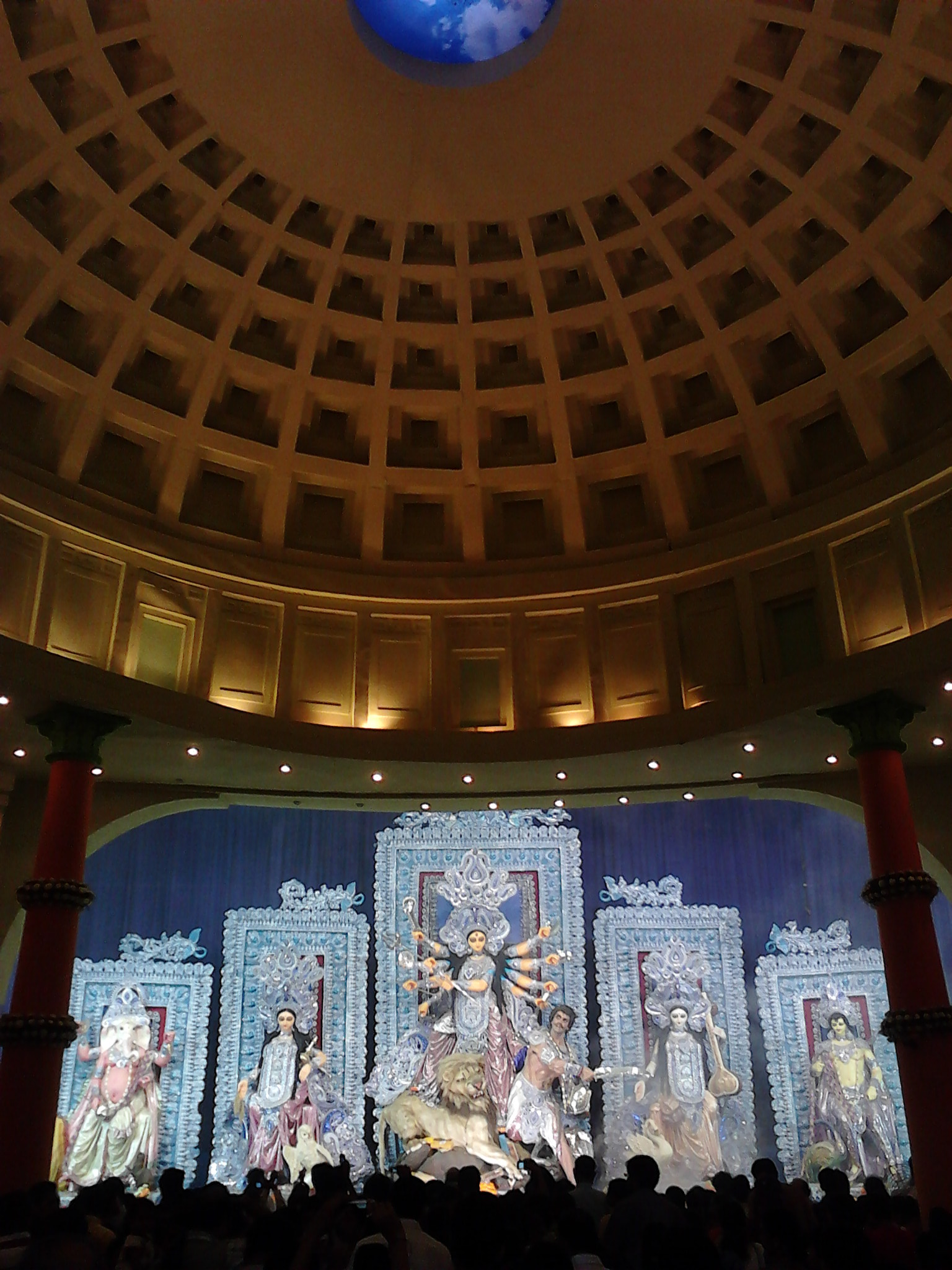 The Durga Puja celebration also referred to as Durgotsava (festival of goddess Durga) in Kolkata. This media file is uploaded with India loves Wikipedia event.